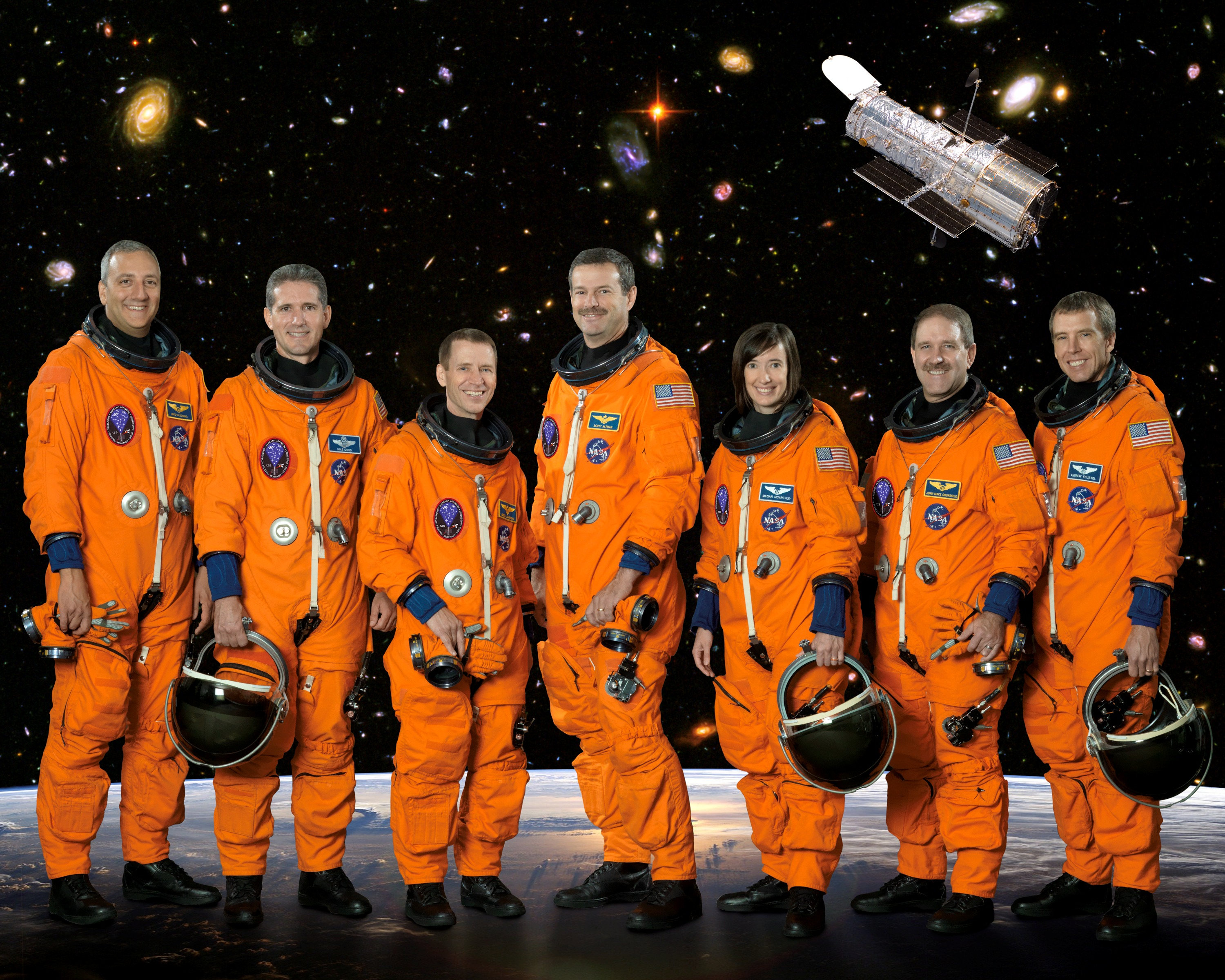 These seven astronauts take a break from training to pose for the STS-125 crew portrait. From the left are astronauts Michael J. Massimino, Michael T. Good, both mission specialists; Gregory C. Johnson, pilot; Scott D. Altman, commander; K. Megan McArthur, John M. Grunsfeld and Andrew J. Feustel, all mission specialists. The STS-125 mission will be the final space shuttle mission to the Hubble Space Telescope.